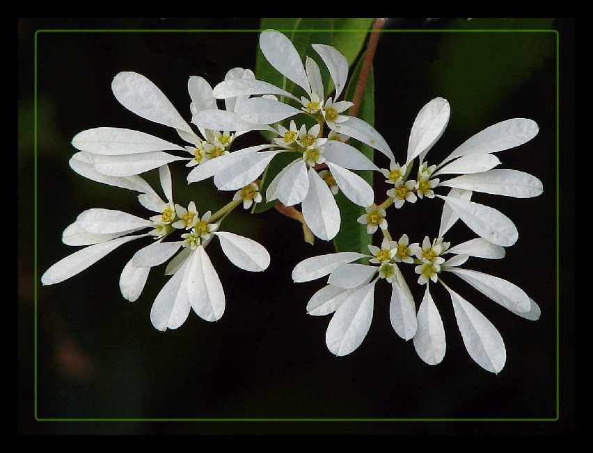 This month Euphorbia leucocephala has started to bloom - it is the sign of winter coming to Down-Under. Common names: Snow flake bush, Snows of Kilimanjaro, Pasquita or Pascuita ( in Spanish) I don't know what to do with Kilimanjaro, - it isn't African plant. Origin is Central America Closely related to poinsettia, and - strangely enough - to 'Crown of Thorns'